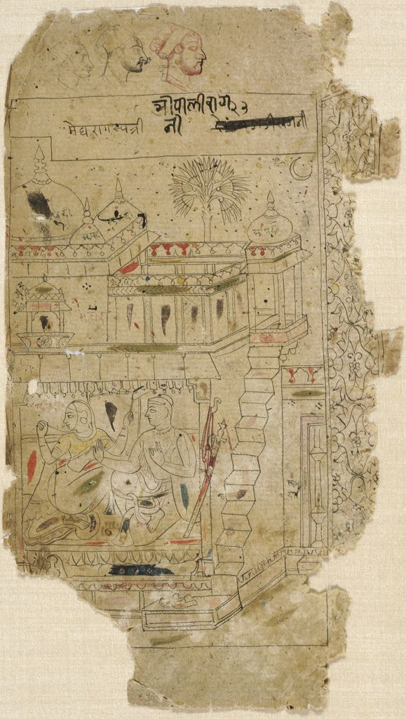 Bhopali Ragini. Harvard Art Museums/Arthur M. Sackler Museum, The Stuart Cary Welch Collection, Gift of Edith I. Welch in memory of Stuart Cary Welch.